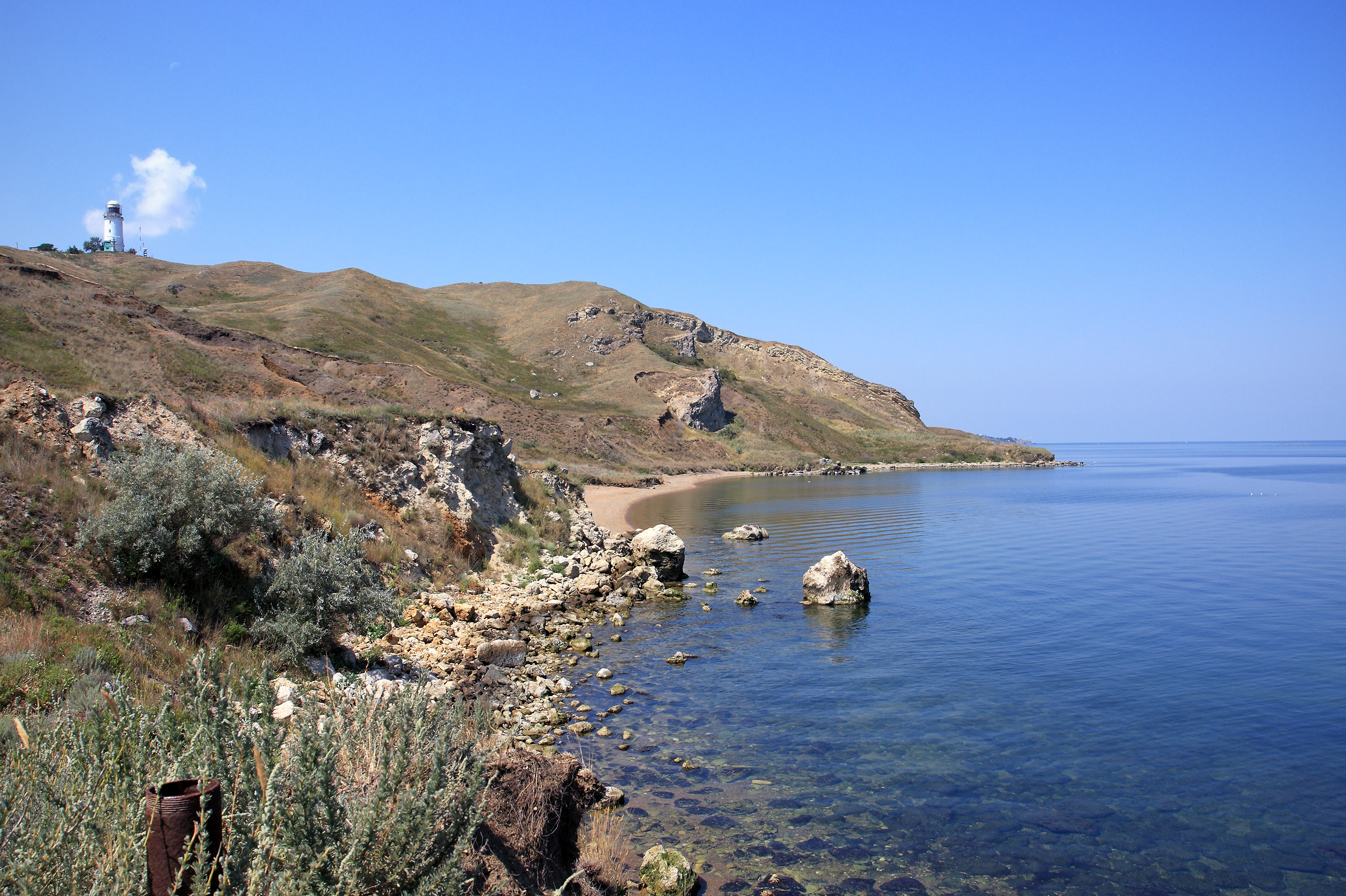 Cape Fonar and Yenikale Lighthouse